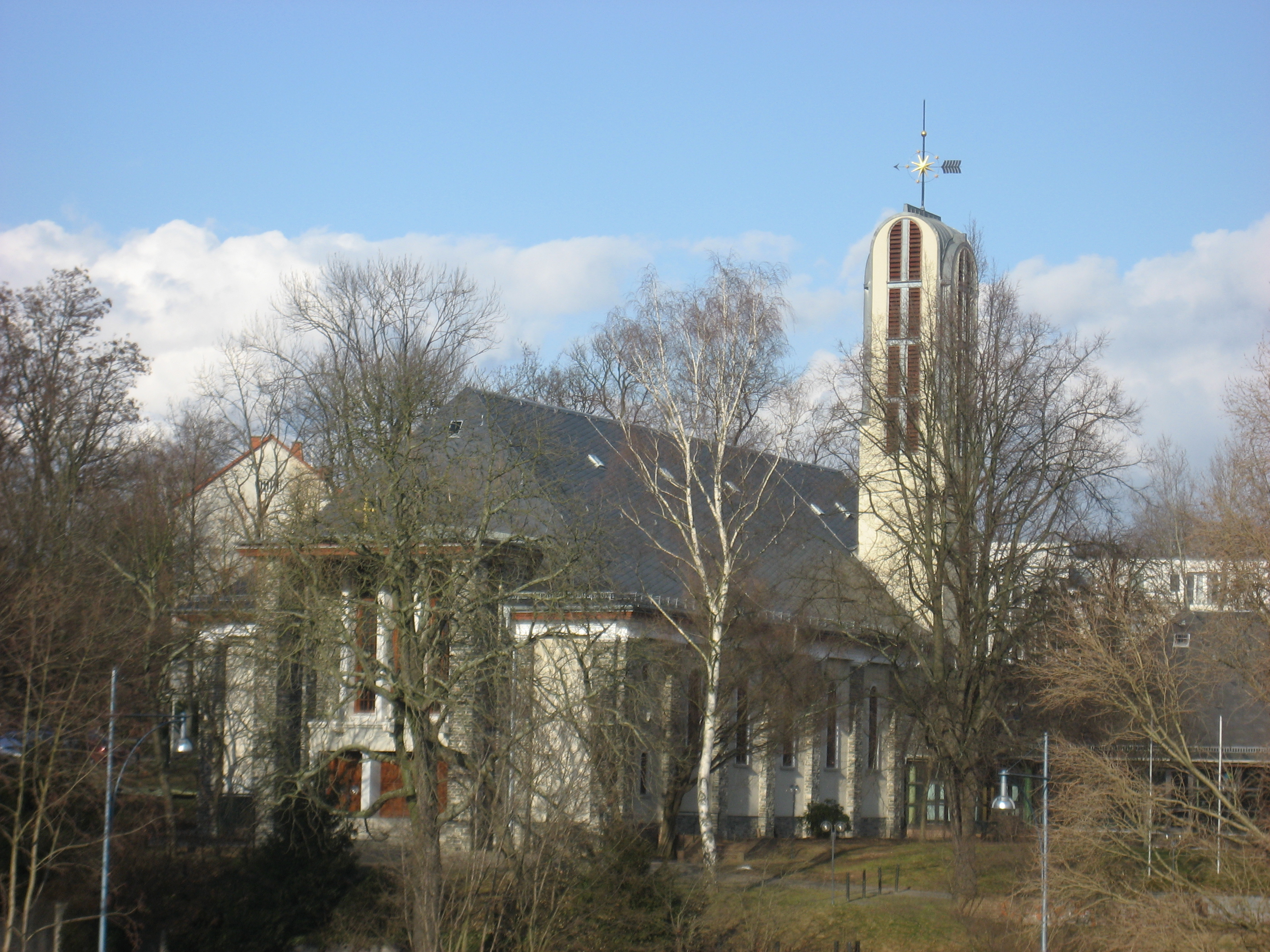 St. Johannes Nepomuk church in Chemnitz